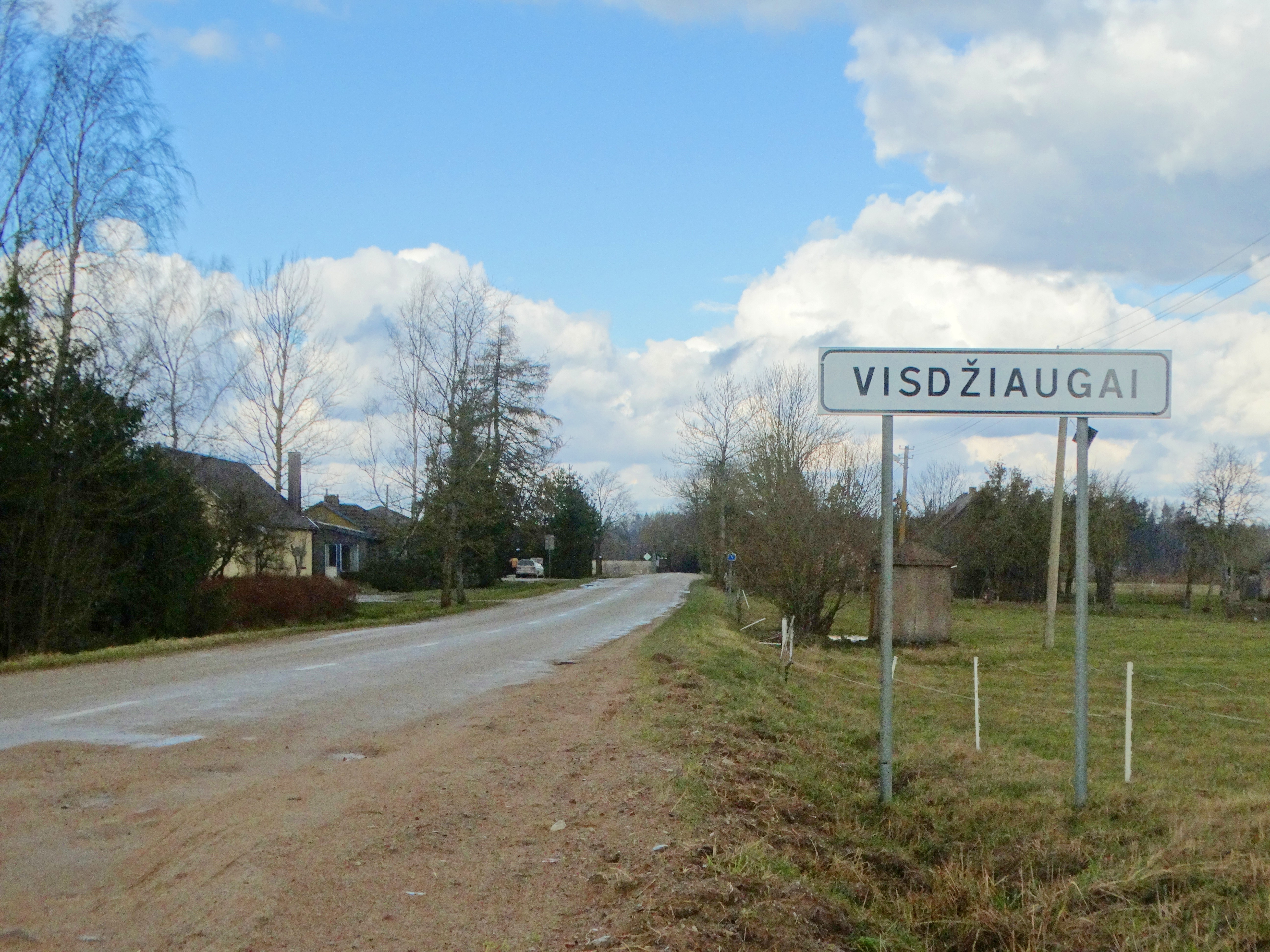 Visdžiaugai, Šilalė District, Lithuania